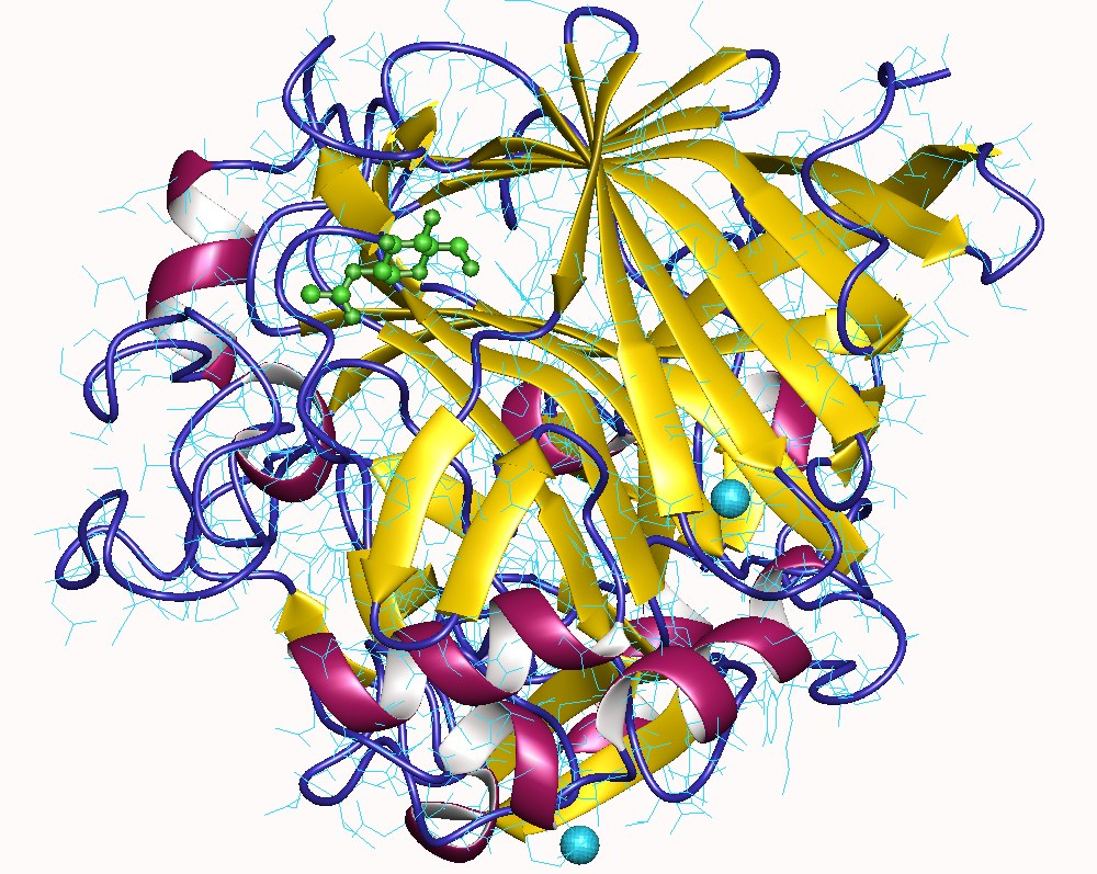 Cellobiohydrolase monomer + 1 NAG (green) + 2 Co (l.blue), Trichoderma reesei